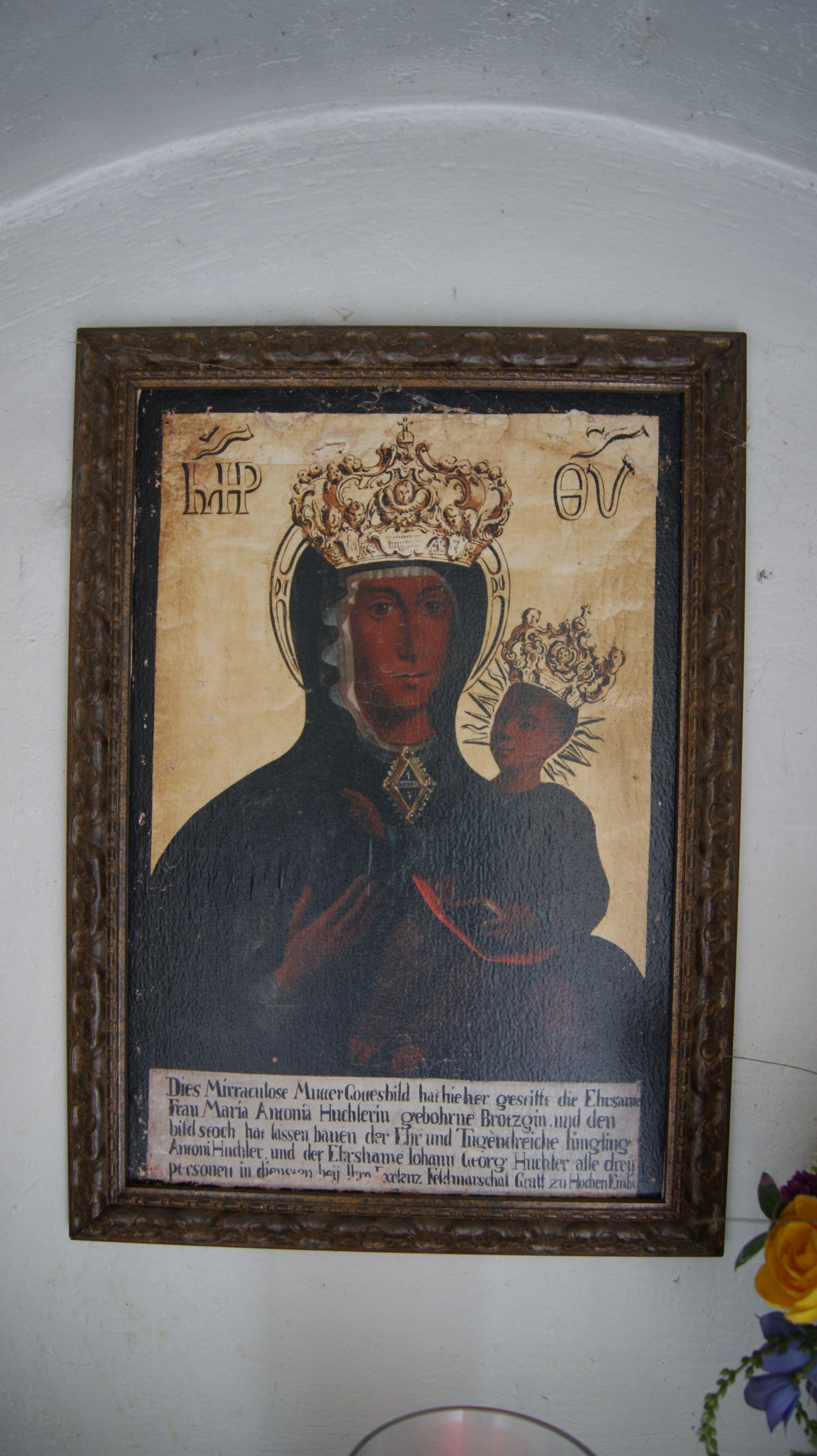 Chapel in the local district "Oberklien" in Hohenems, Vorarlberg, Österreich. Picture of the "miraculous" Holy Lady.